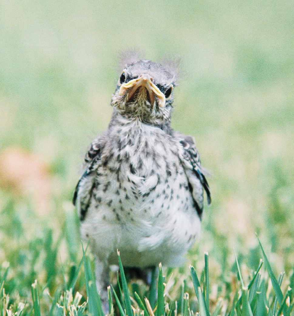 Mockingbird Chick